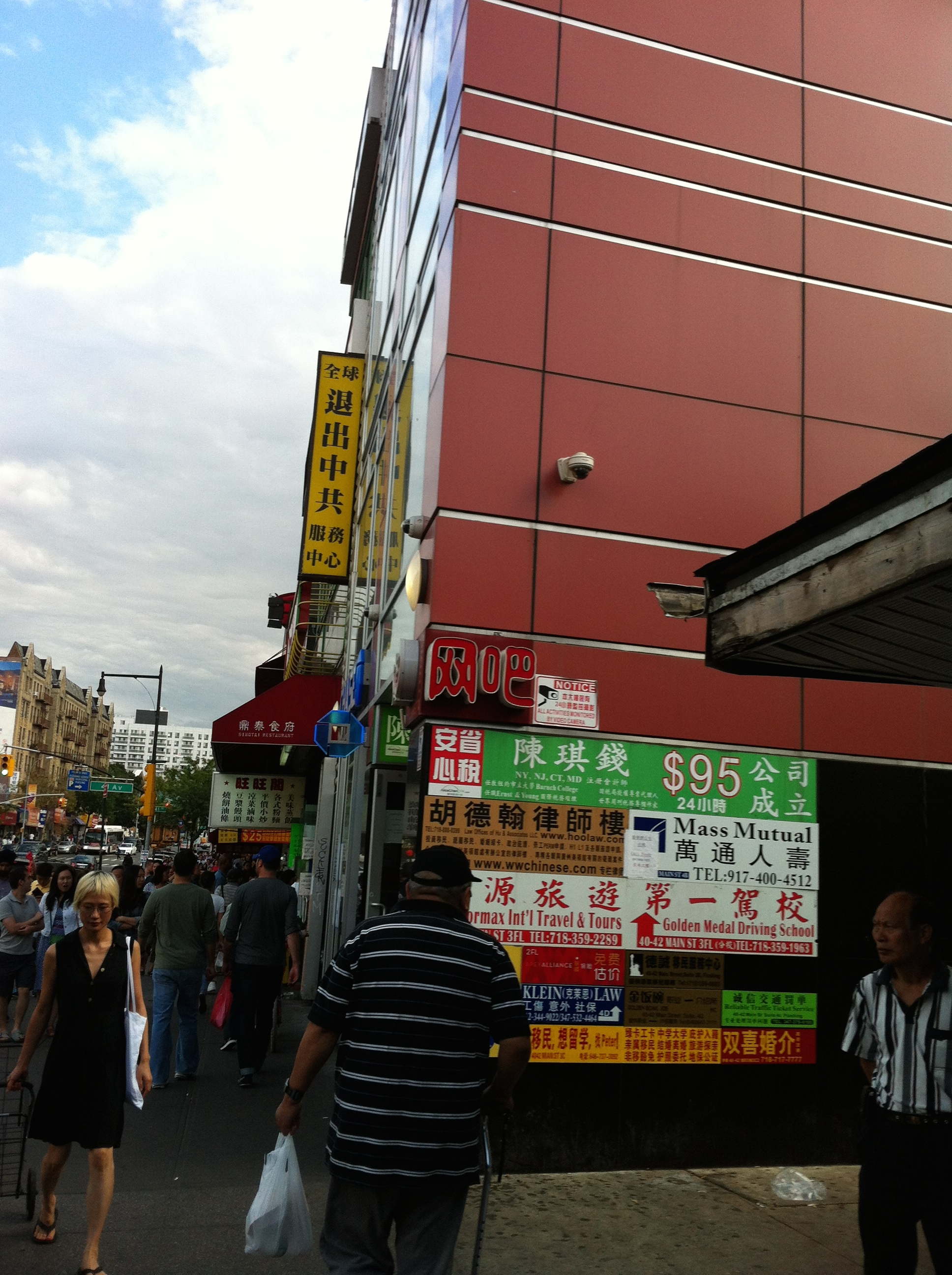 The "Tuidang Center" in Flushing, NY.中文（中国大陆）: 位于纽约法拉盛的“全球退出中共服务中心”。